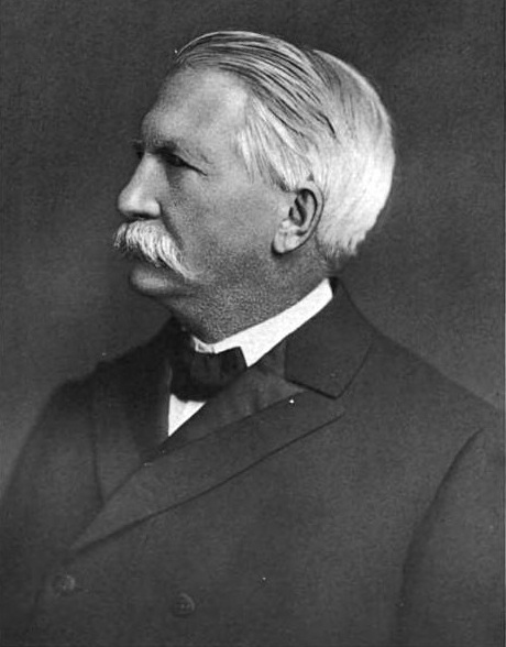 Edward Stevens Henry (Connecticut Congressman)